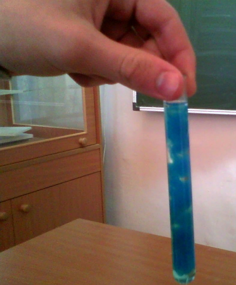 Copper(II) hydroxide